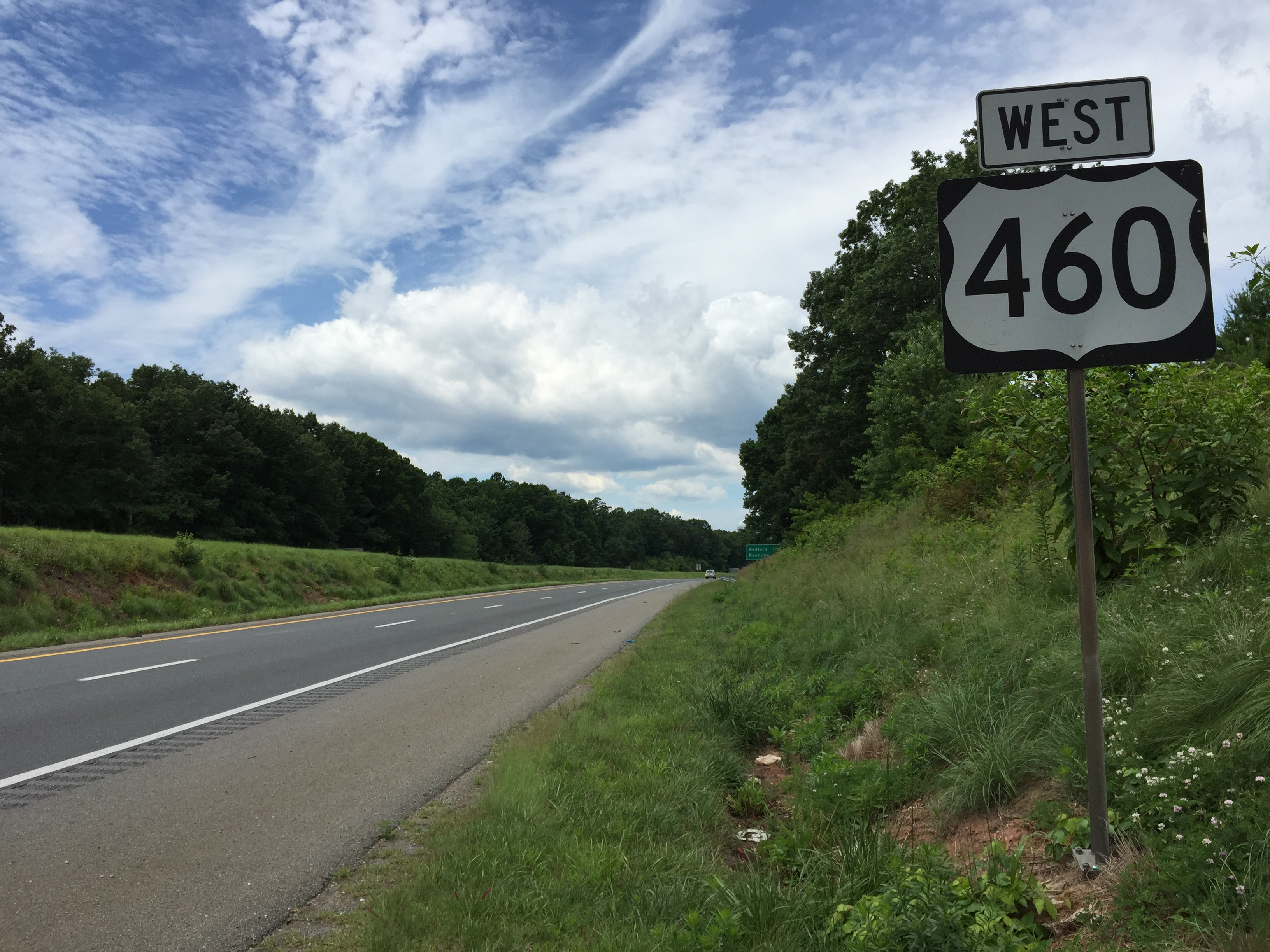 View west along U.S. Route 460 just west of Leesville Road (Virginia State Secondary Route 682) in Timberlake, Campbell County, Virginia